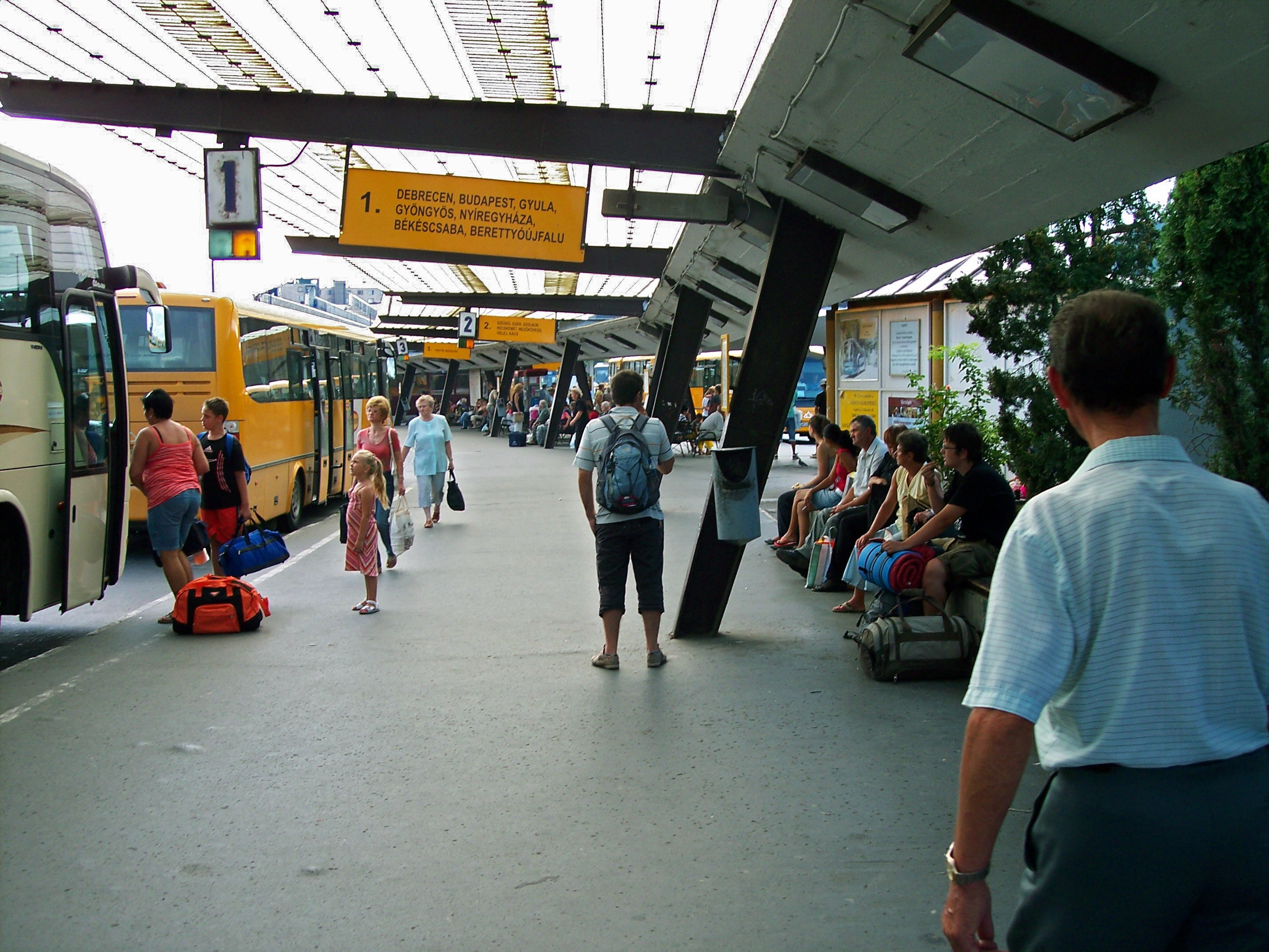 Bus station, Búza square, Miskolc, Hungary